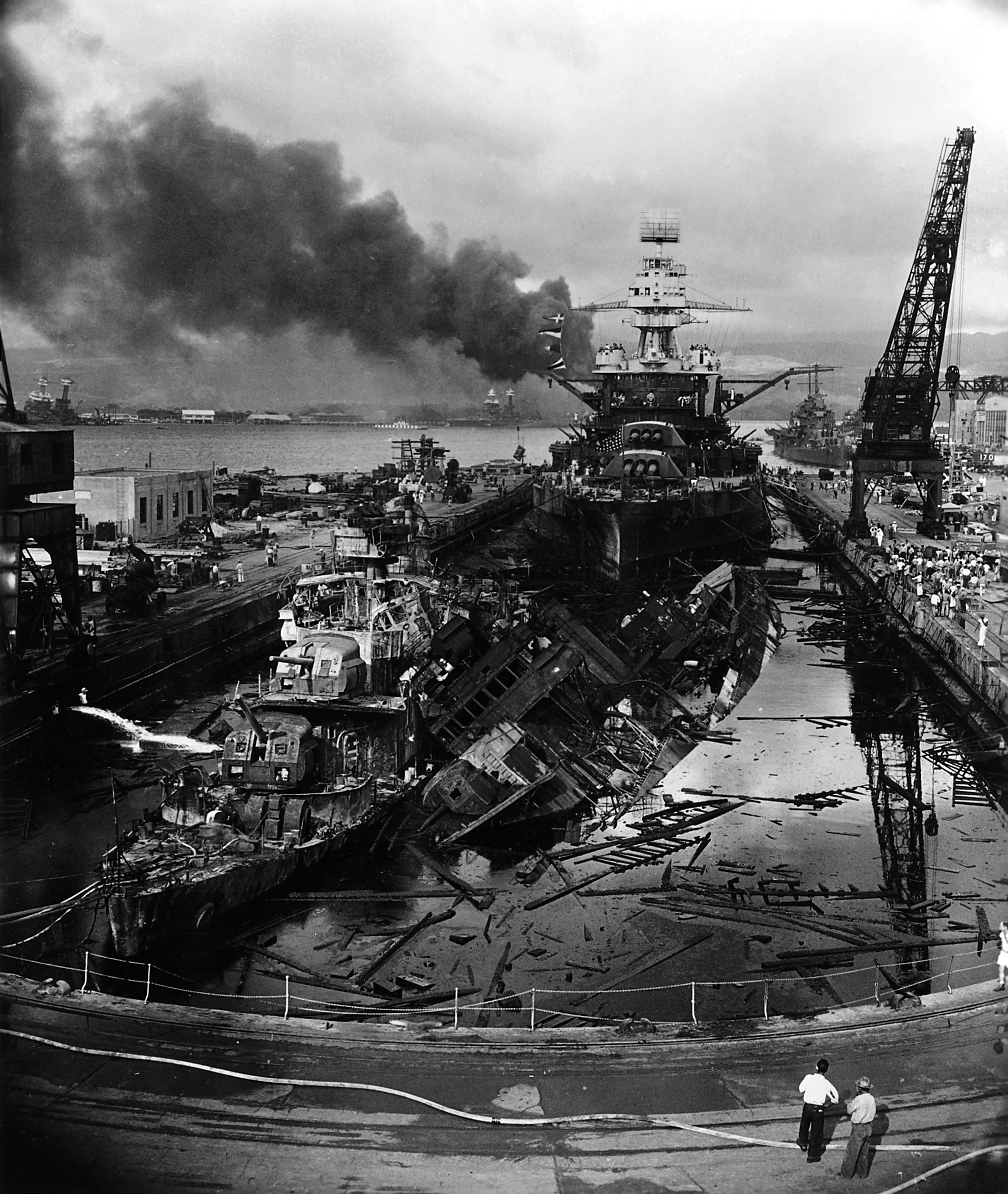 The wrecked destroyers USS Downes (DD-375) and USS Cassin (DD-372) in Dry Dock No. 1 at the Pearl Harbor Naval Shipyard, soon after the end of the Japanese air attack. Cassin has capsized against Downes. USS Pennsylvania (BB-38) is astern, occupying the rest of the drydock. The torpedo-damaged cruiser USS Helena (CL-50) is in the right distance, beyond the crane. Visible in the center distance is the capsized USS Oklahoma (BB-37), with USS Maryland (BB-46) alongside. The smoke is from the sunken and burning USS Arizona (BB-39), out of view behind Pennsylvania. USS California (BB-44) is partially visible at the extreme left.